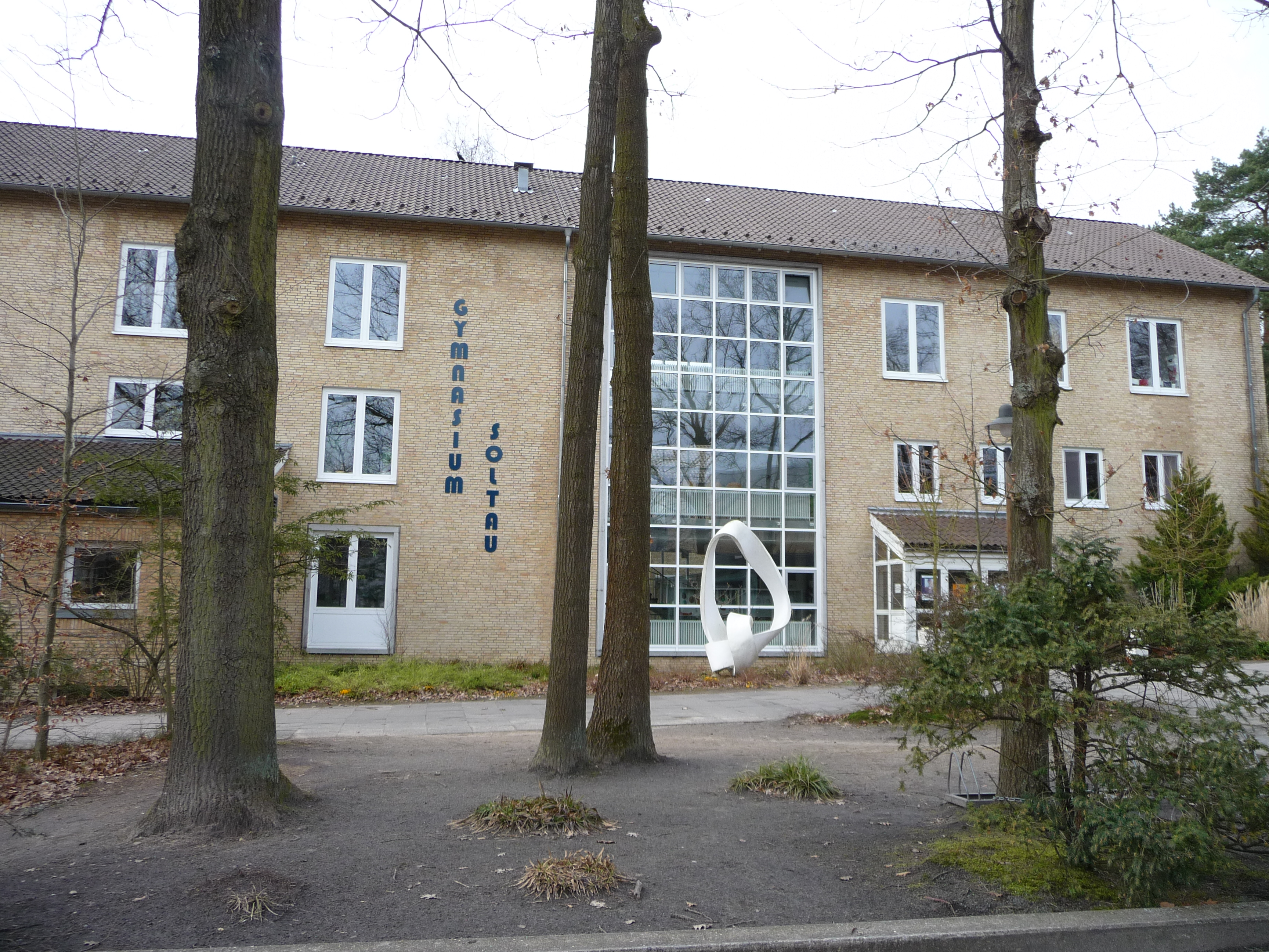 Secondary school Soltau, main entrance